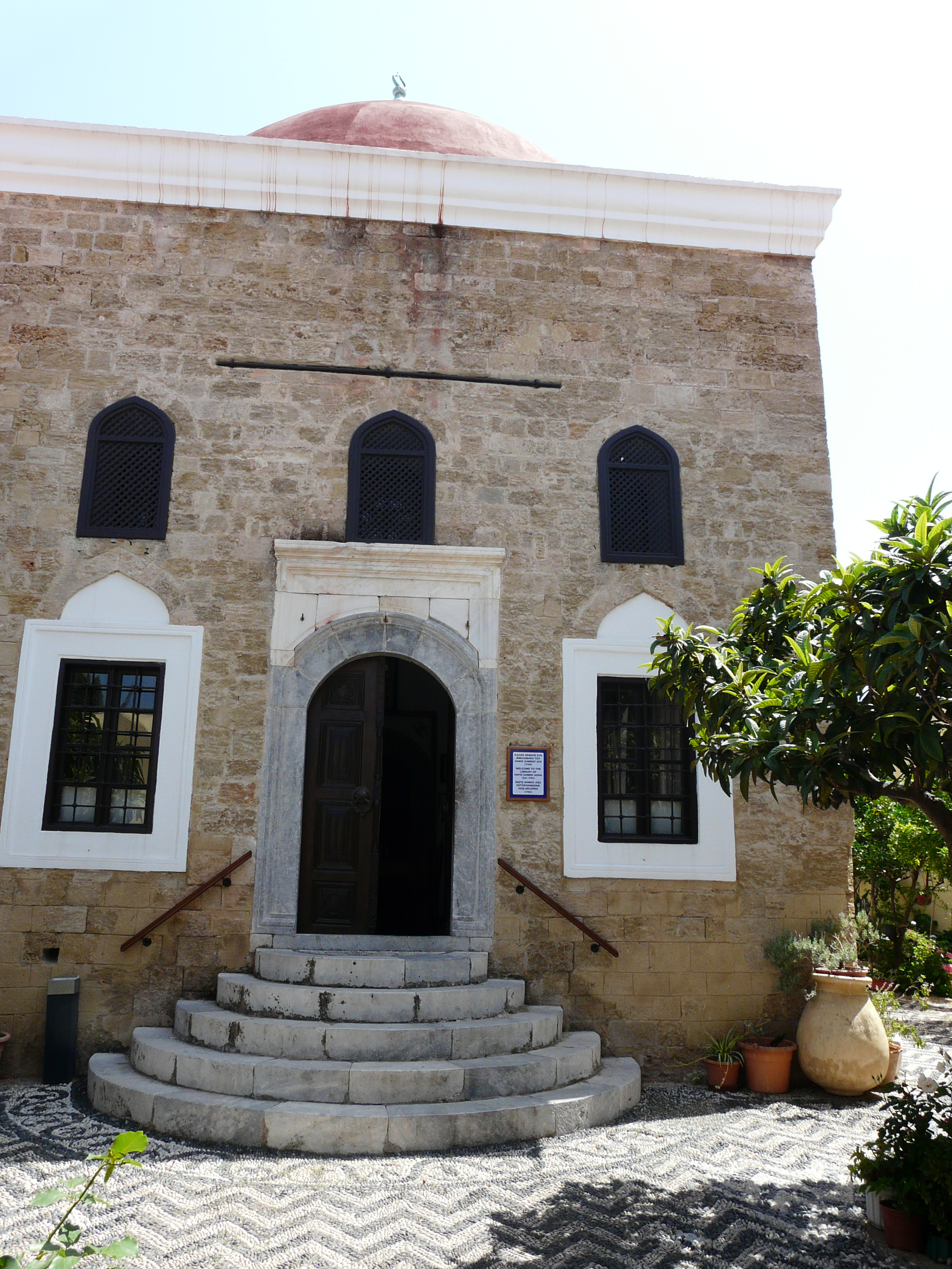 City of Rhodes.The entrance to the old Muslim Library This 18th-century library was founded in 1794 by Ahmed Hasuf. It contains a small number of Persian and Arabic manuscripts and Korans handwritten on parchment.